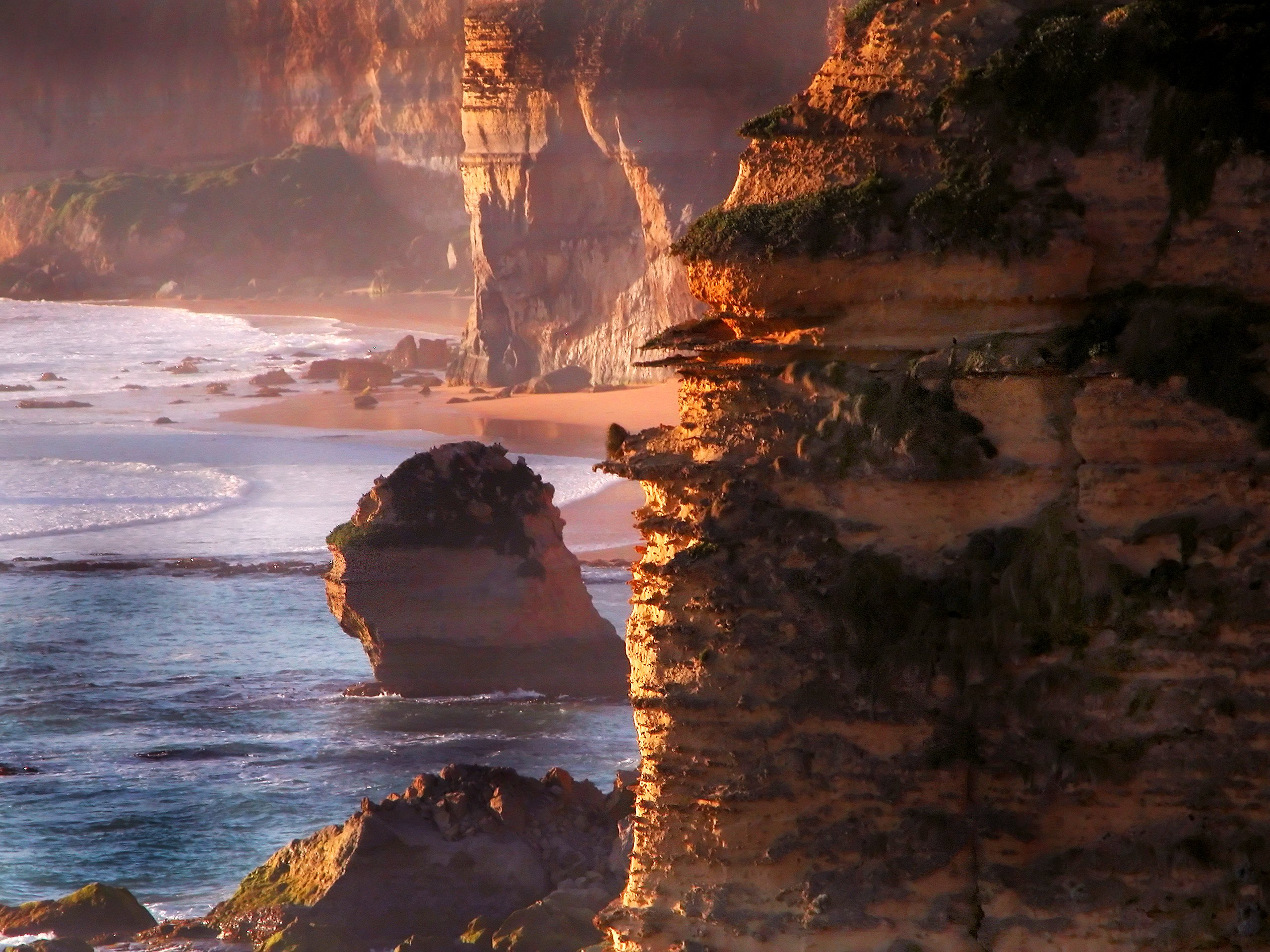 A view of The Twelve Apostles along the Great Ocean Road. The rubble behind the foremost pillar is the apostle that recently collapsed.